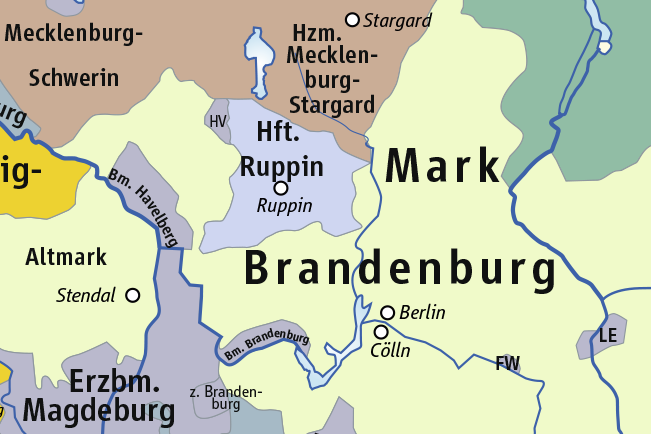 Map of the Herrschaft Ruppin as a territory of the Holy Roman Empire, c. 1400.